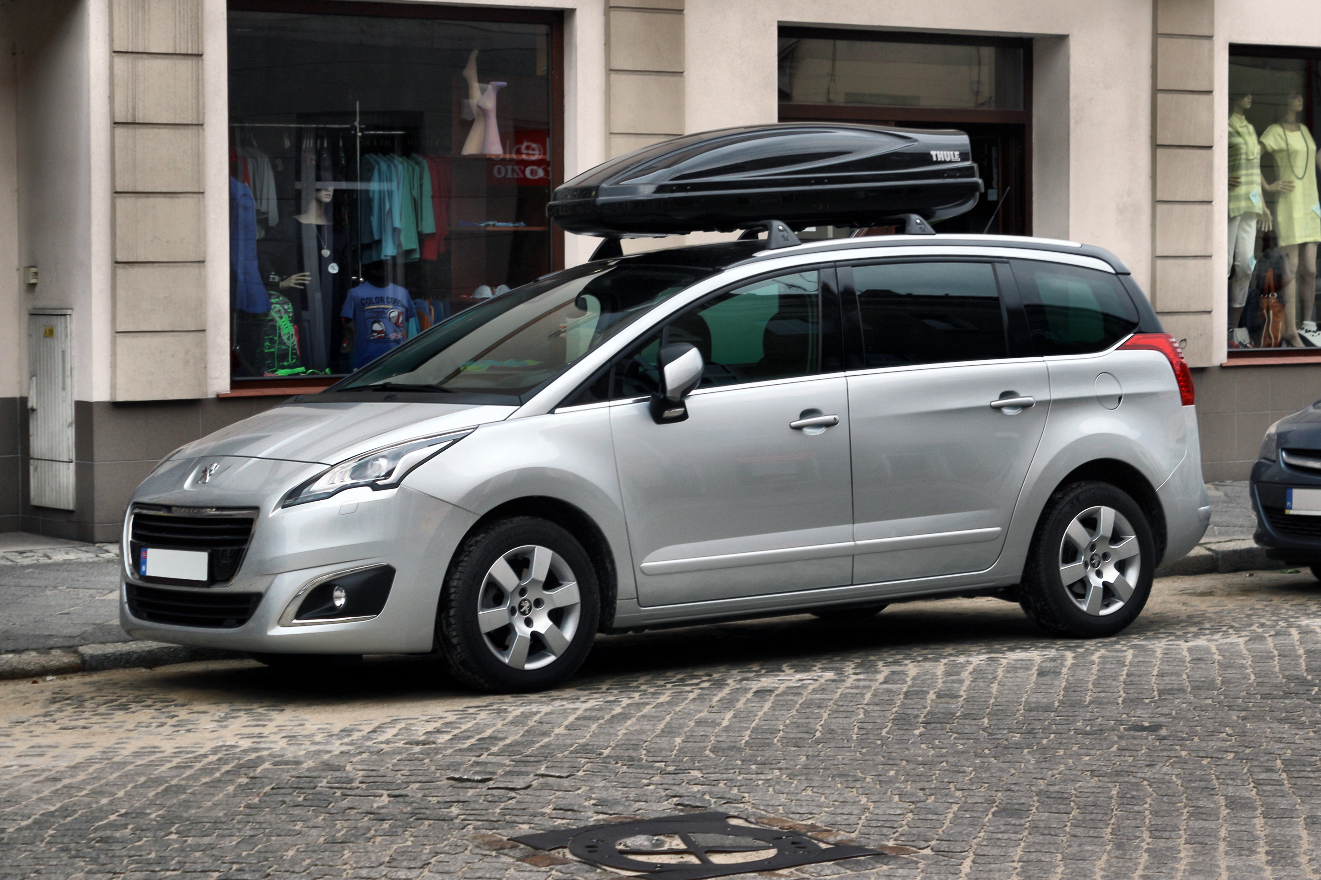 Peugeot 5008 phase 2